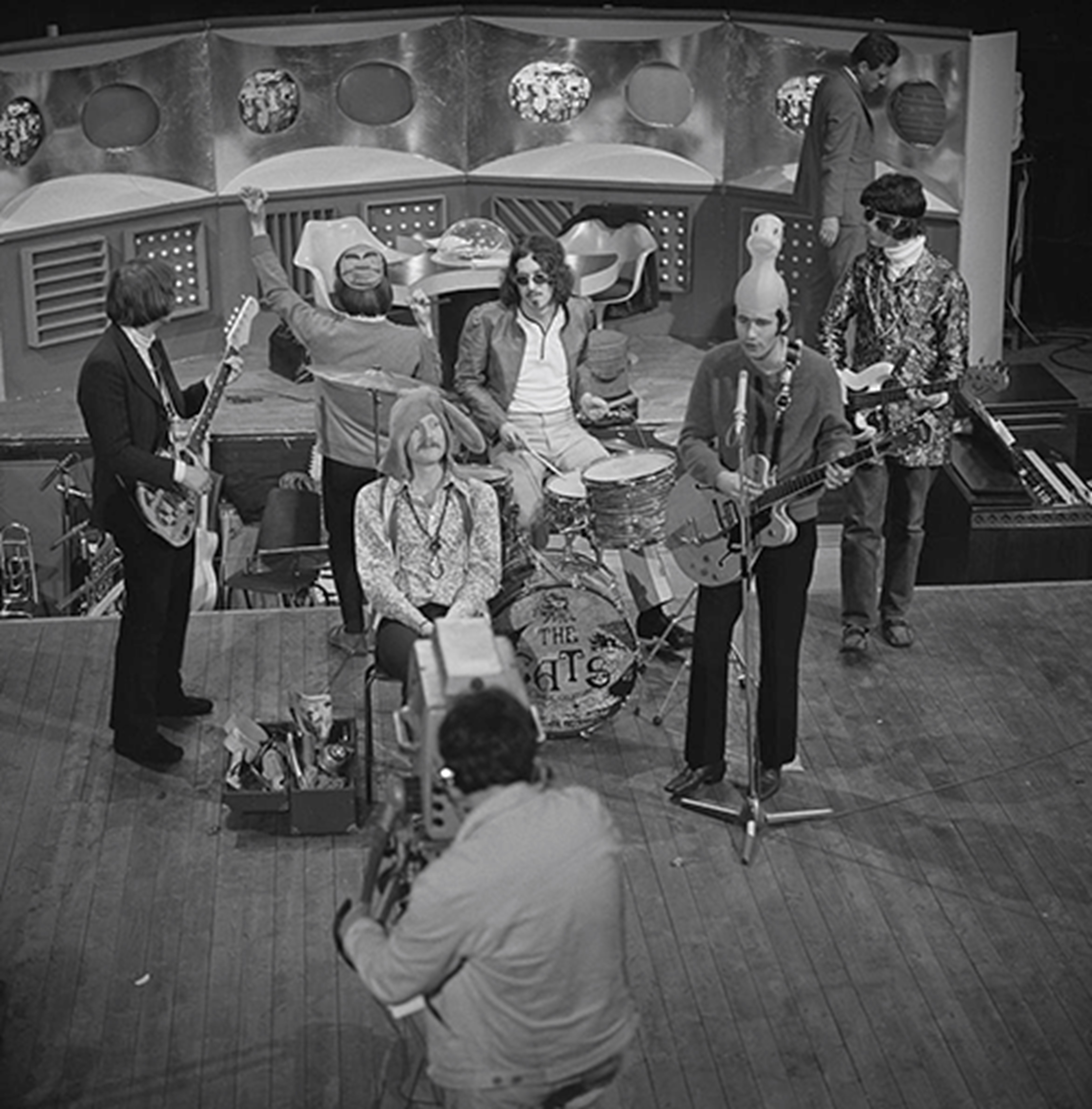 Bonzo Dog Doo-Dah Band in Fenklup (Dutch TV), 7 June 1968. The drumkit is from the Dutch musical group The Cats, also performing in Fenklup.